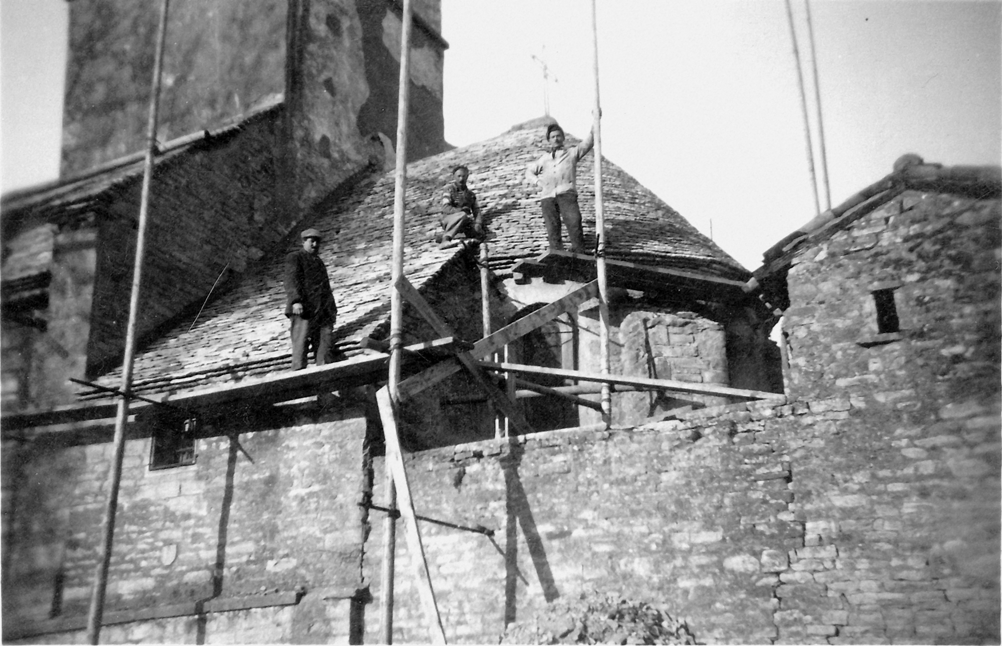 Renovation of the church Saint-Barthelemy in Farges-lès-Mâcon (Saône-et-Loire, France) in september 1932.